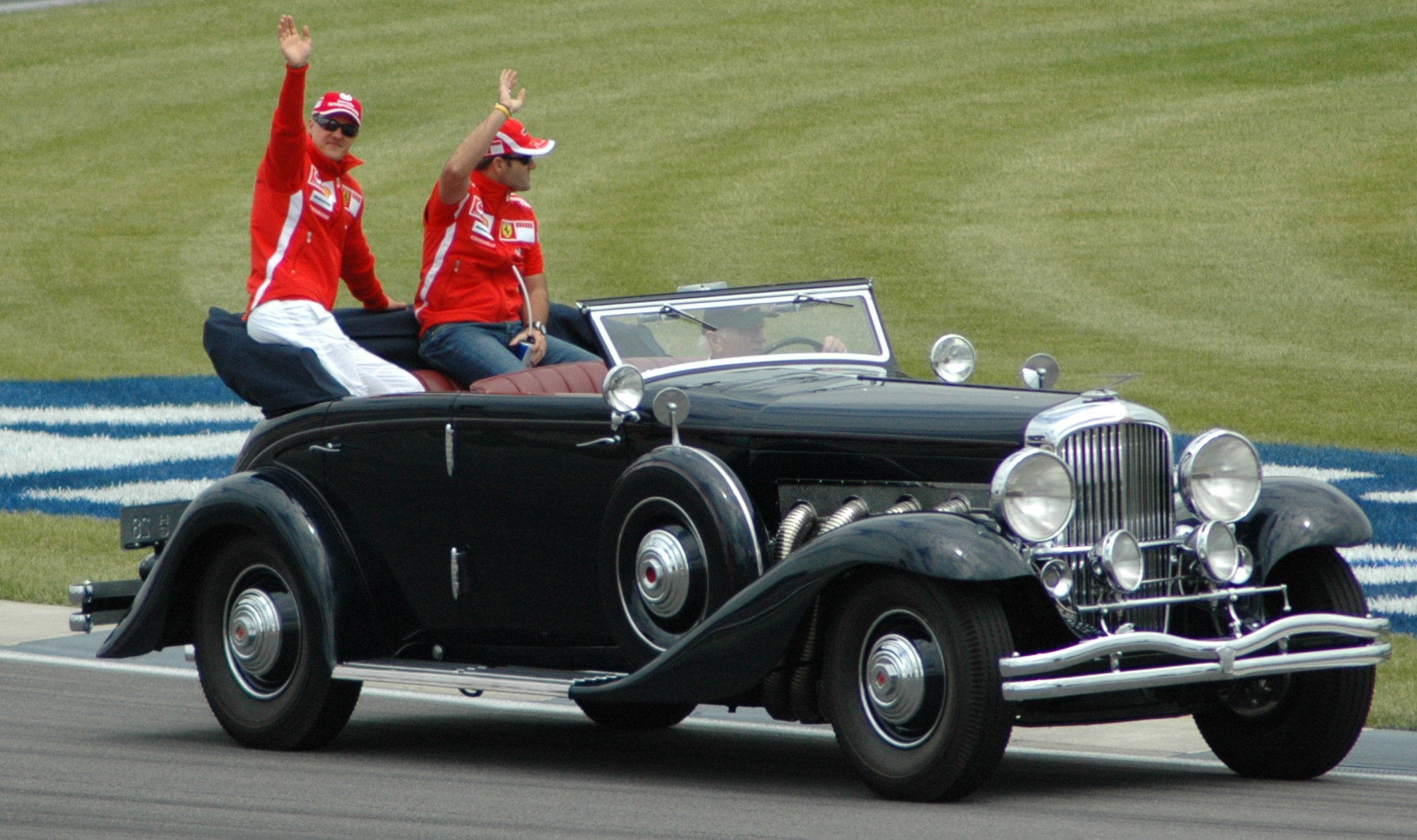 Michael Schumacher and Rubens Barrichello at the 2005 US Grand Prix